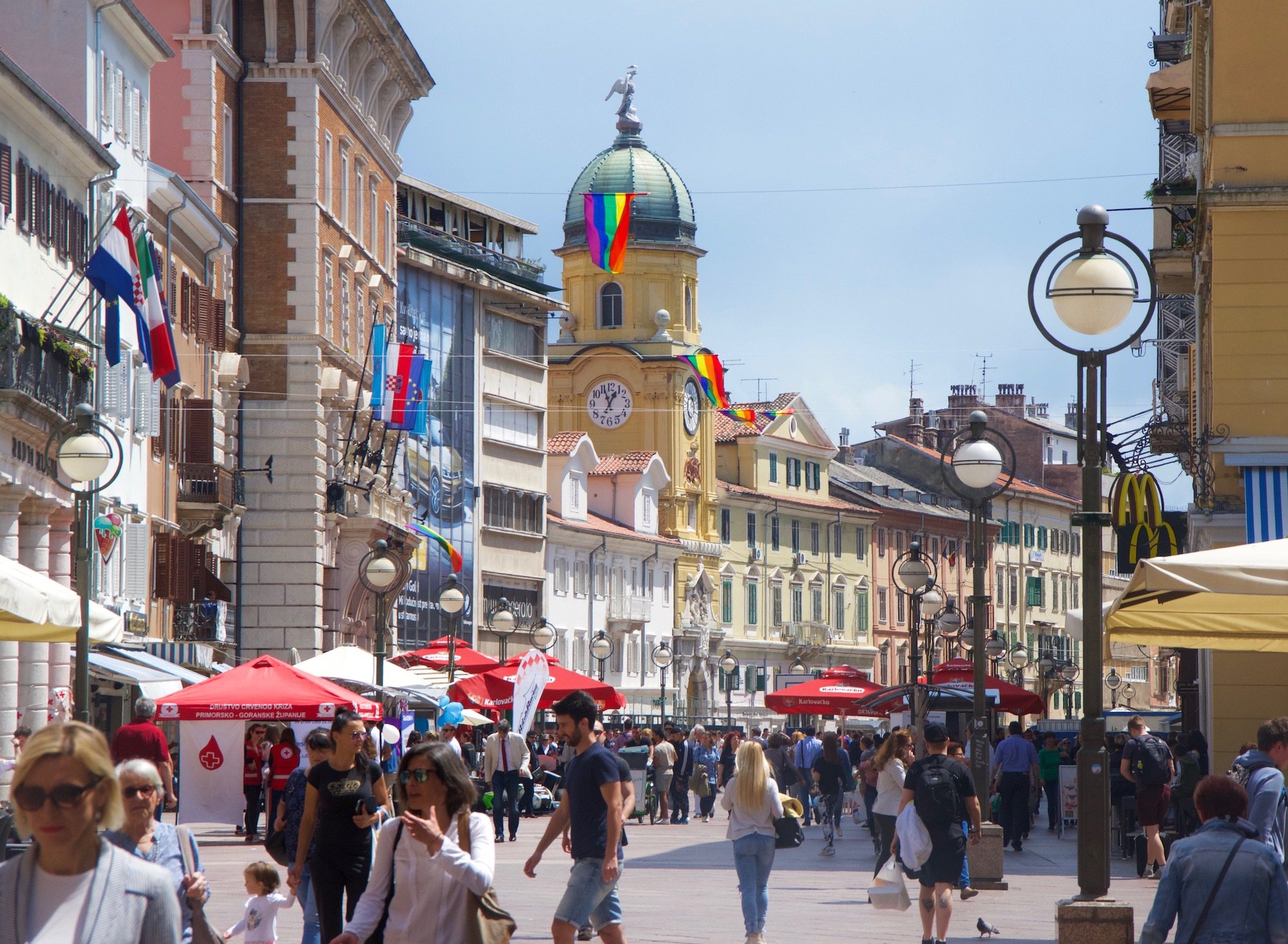 Korzo